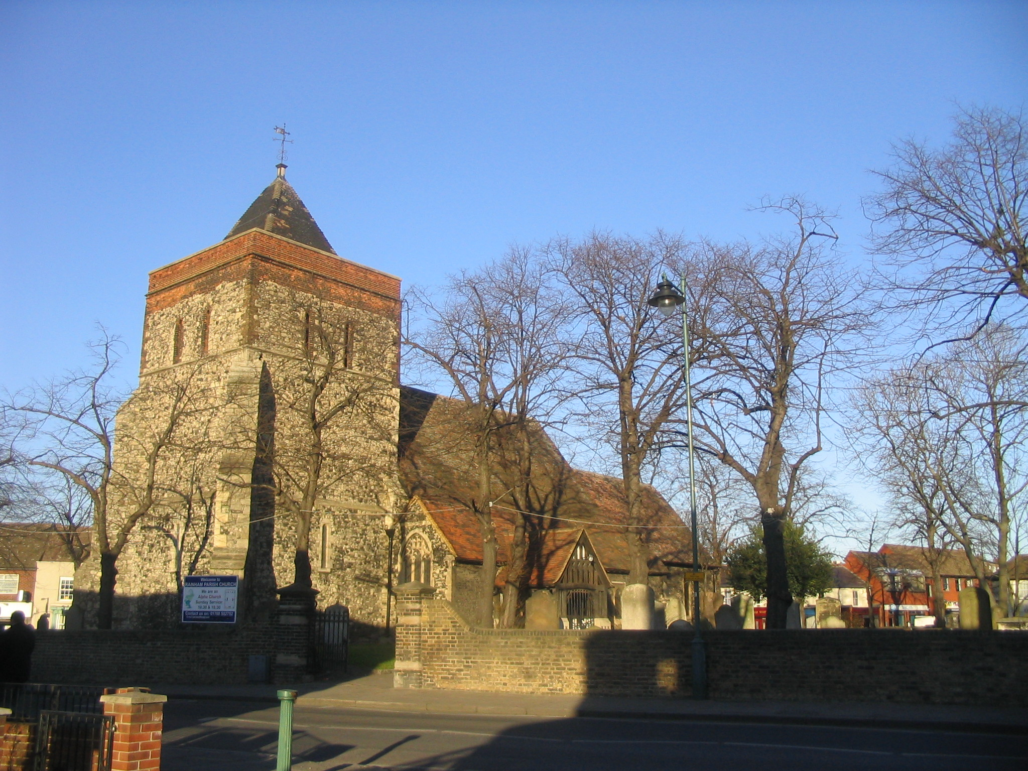 St. Helens and St. Giles Church, Rainham, London, England.